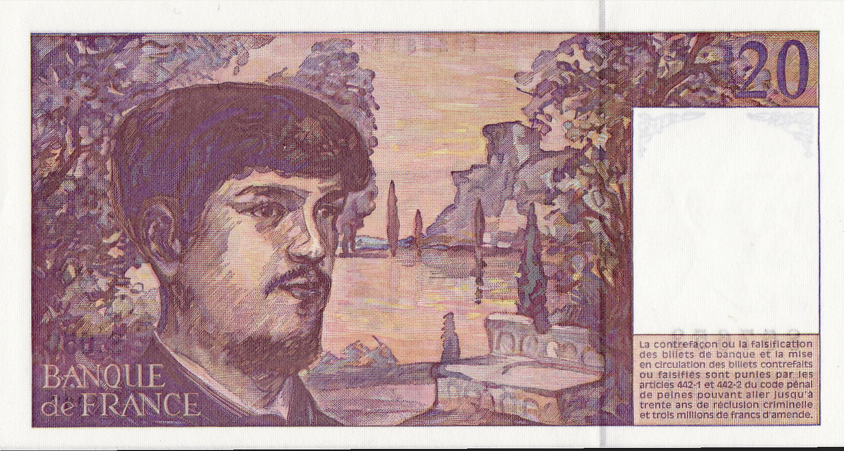 Twenty franc French banknote, 1993.